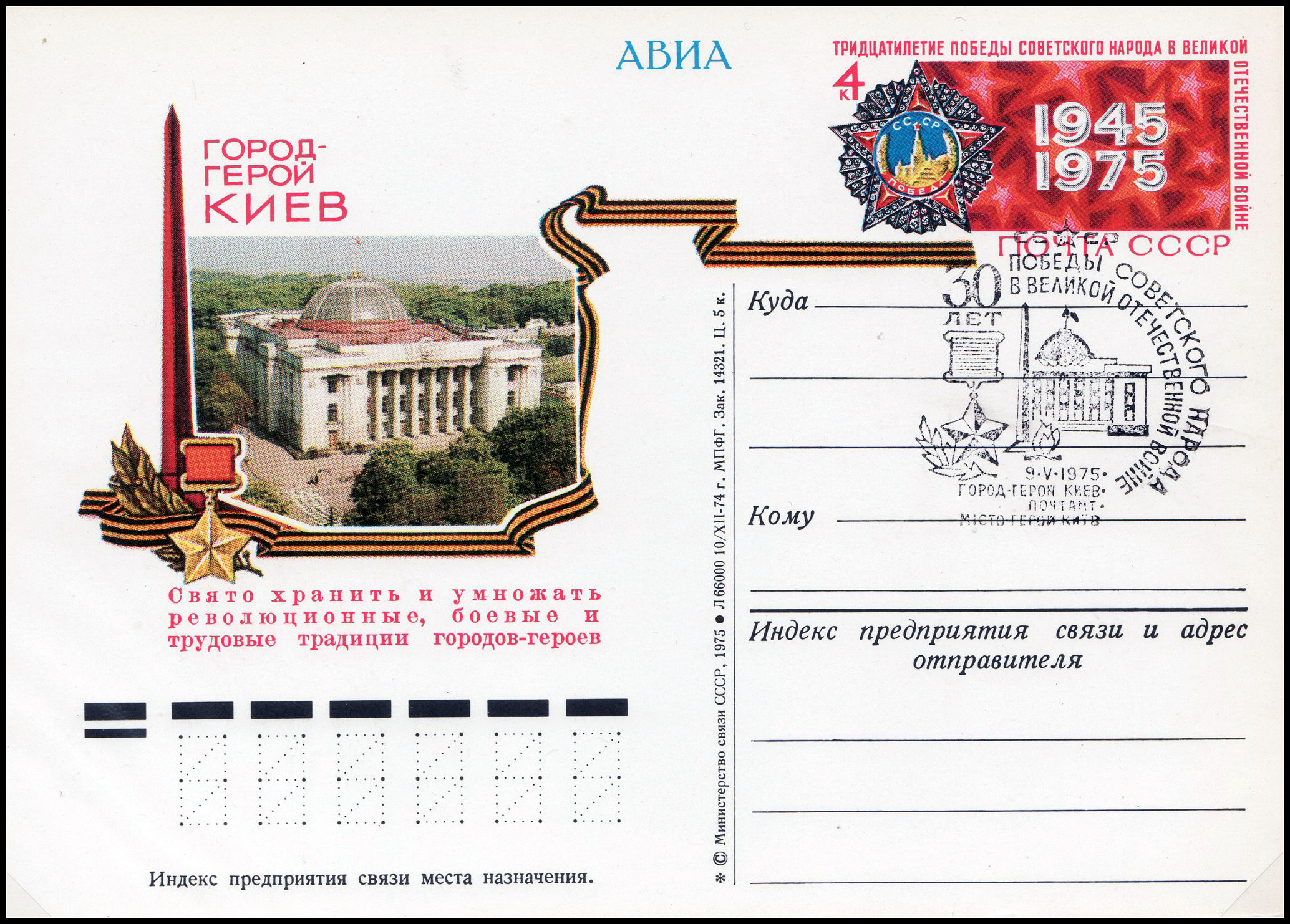 USSR, 1975. Postal card with commemorative stamp. Airmail. "30th anniversary of Victory in the Great Patriotic War. Hero City Kiev". From the series "Hero Cities of the USSR" (CPA Catalogue №22). Stamp: The Order of Victory; Guards ribbon. Illustration: The building of the Supreme Soviet of Ukraine, the monument of Eternal Glory at the Tomb of the Unknown Soldier; medal "Gold Star". Painter I. Kozlov; Photo I. Kropyvnytskyi. Special cancellation, "30th anniversary the Victory in the Great Patriotic War. Hero City Kiev" 09/05/1975 Kiev, Central Post Office.